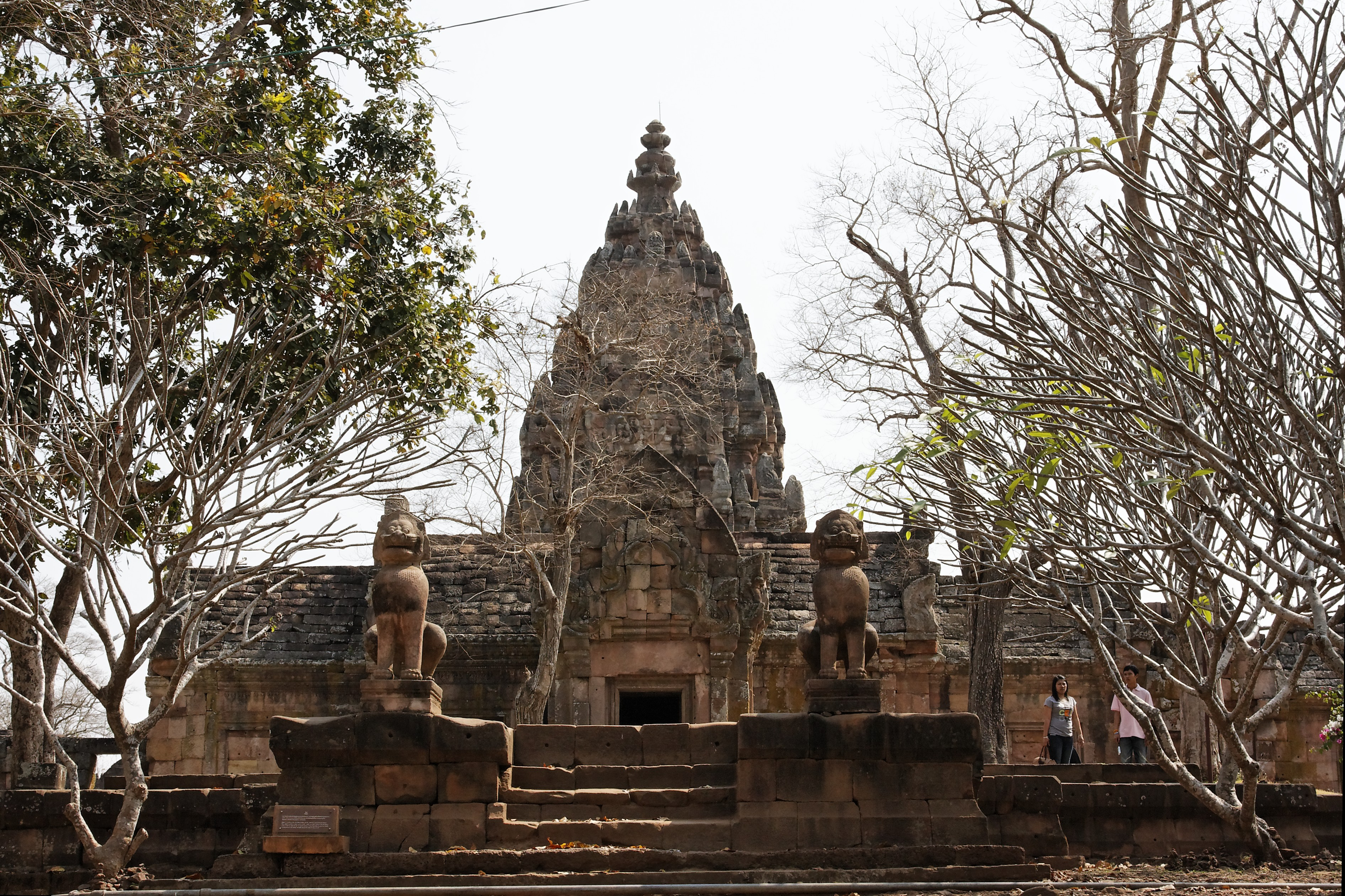 Prasat Phnom Rung, Thailand